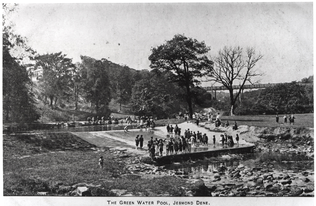 Type : Photograph Medium : Print-black-and-white Description : A view of Greenwater Pool Jesmond Vale Newcastle upon Tyne taken in 1903. The weir is in the foreground with the pool above. Children can be seen around the pool and the weir. Jesmond Park mansion can be seen through the trees in the background to the left and Armstrong Bridge to the right.Parks Collection : Local Studies Source of Information : From a postcard owned by Jimmy Donald. Printed Copy : If you would like a printed copy of this image please contact Newcastle Libraries quoting Accession Number : 065057